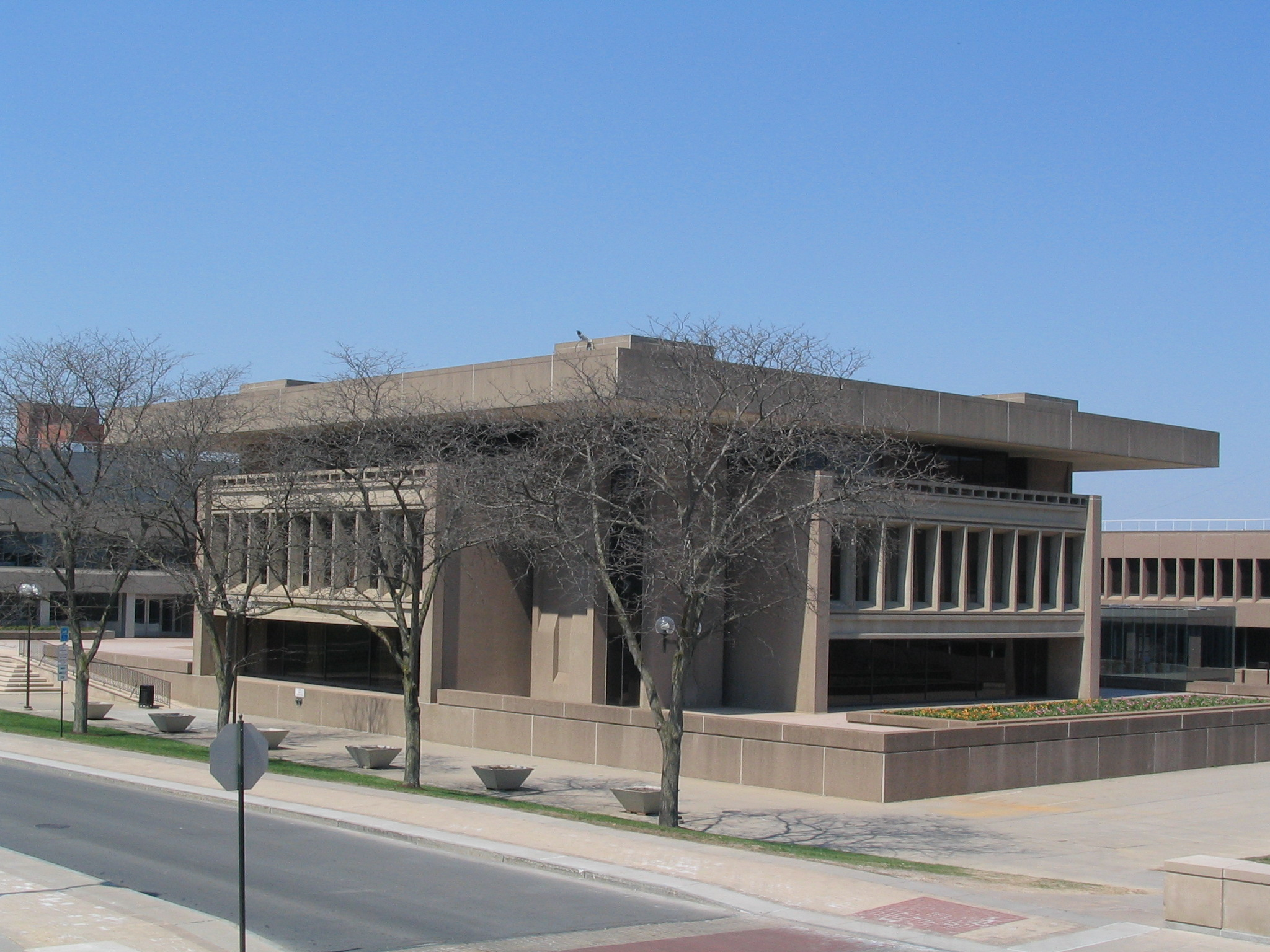 This is an image of Newhouse Communications Center I that I took with my digital camera. This building is located on Syracuse University.